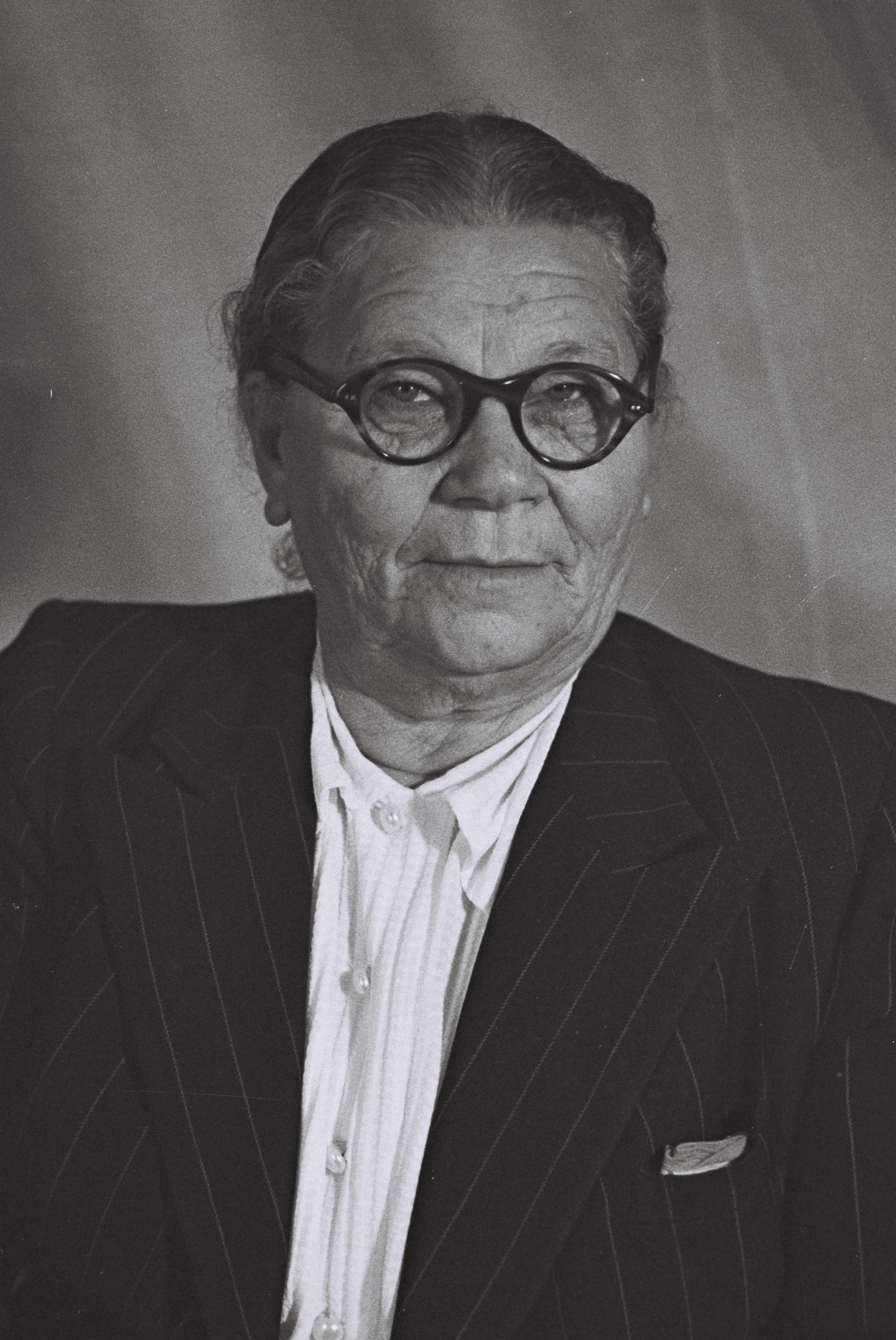 M.K. ADA MAIMON, MAPAM PARTY.